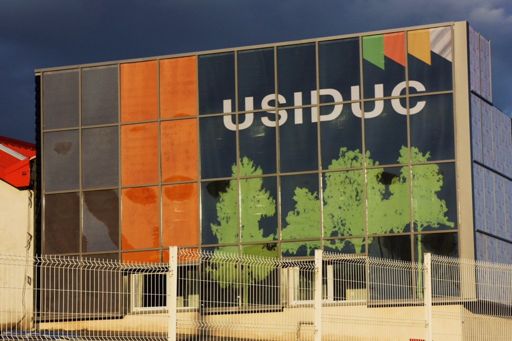 Industrial building after the installation of the air source solar panels